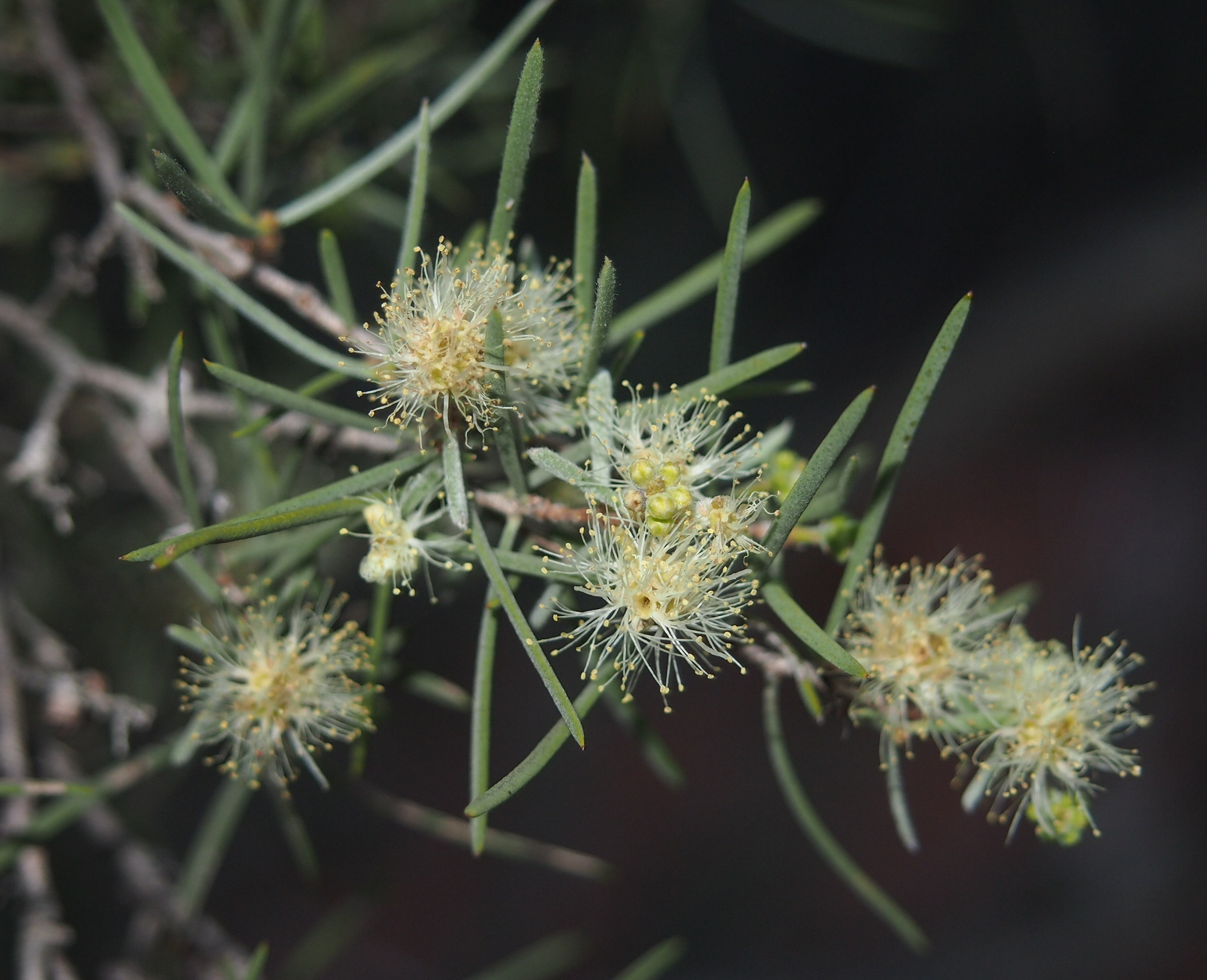 Melaleuca glomerata blossoms